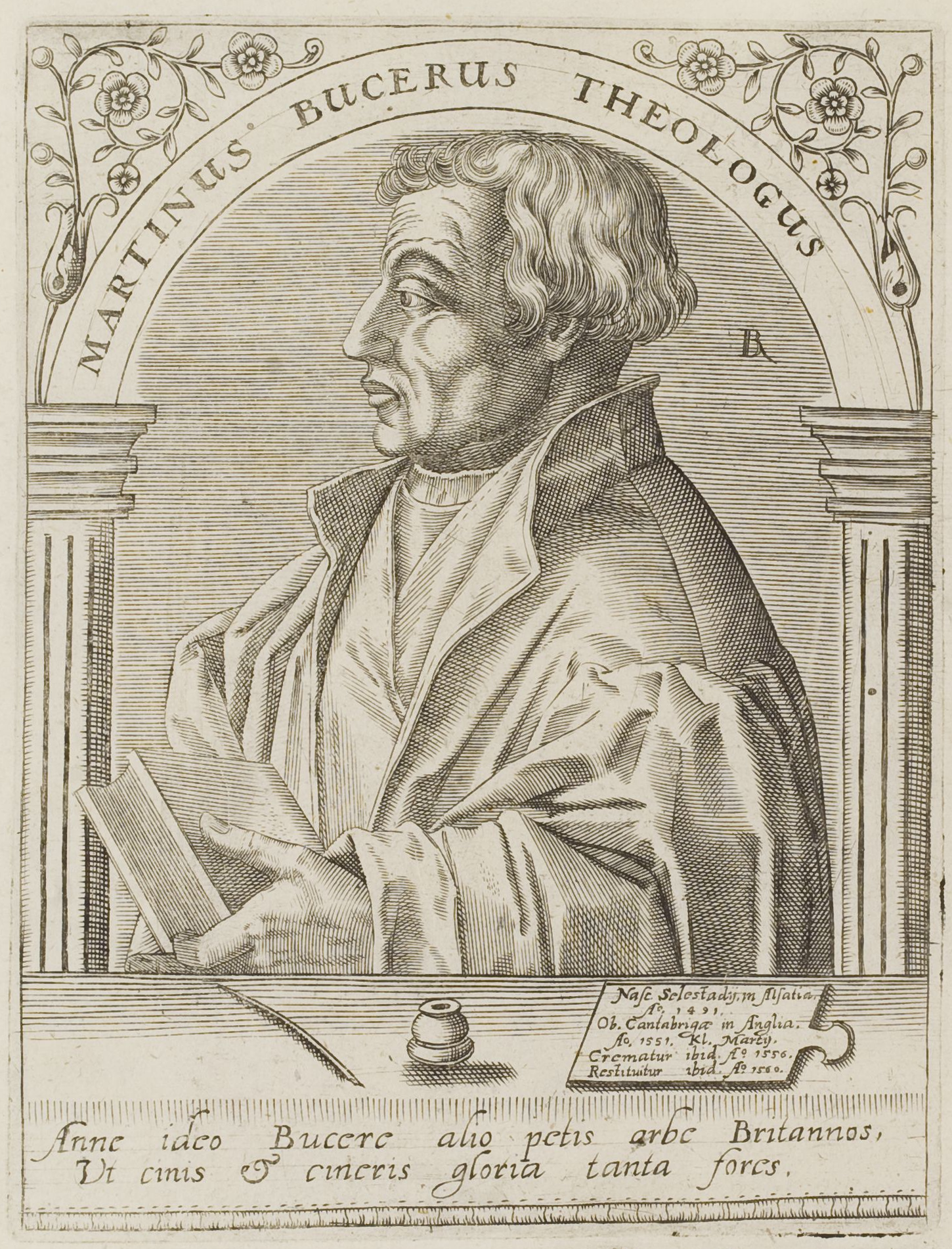 Original in Icones quinquaginta vivorum held in British Library, London.